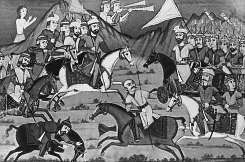 Miniature for Leyli and Majnun poem by famous Azerbaijani poet Fuzuli